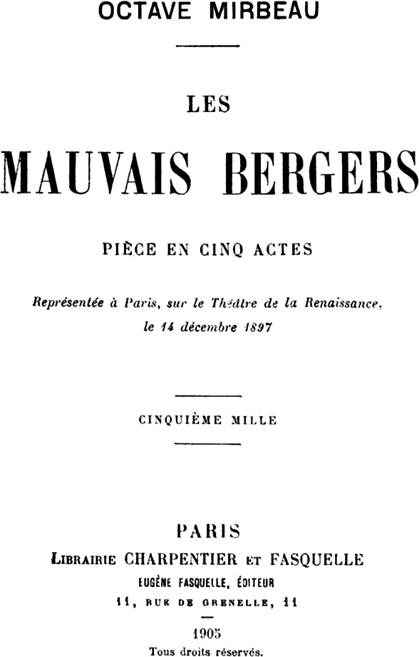 The Bad Shepperds (1897) by Octave Mirbeau (1848-1917)